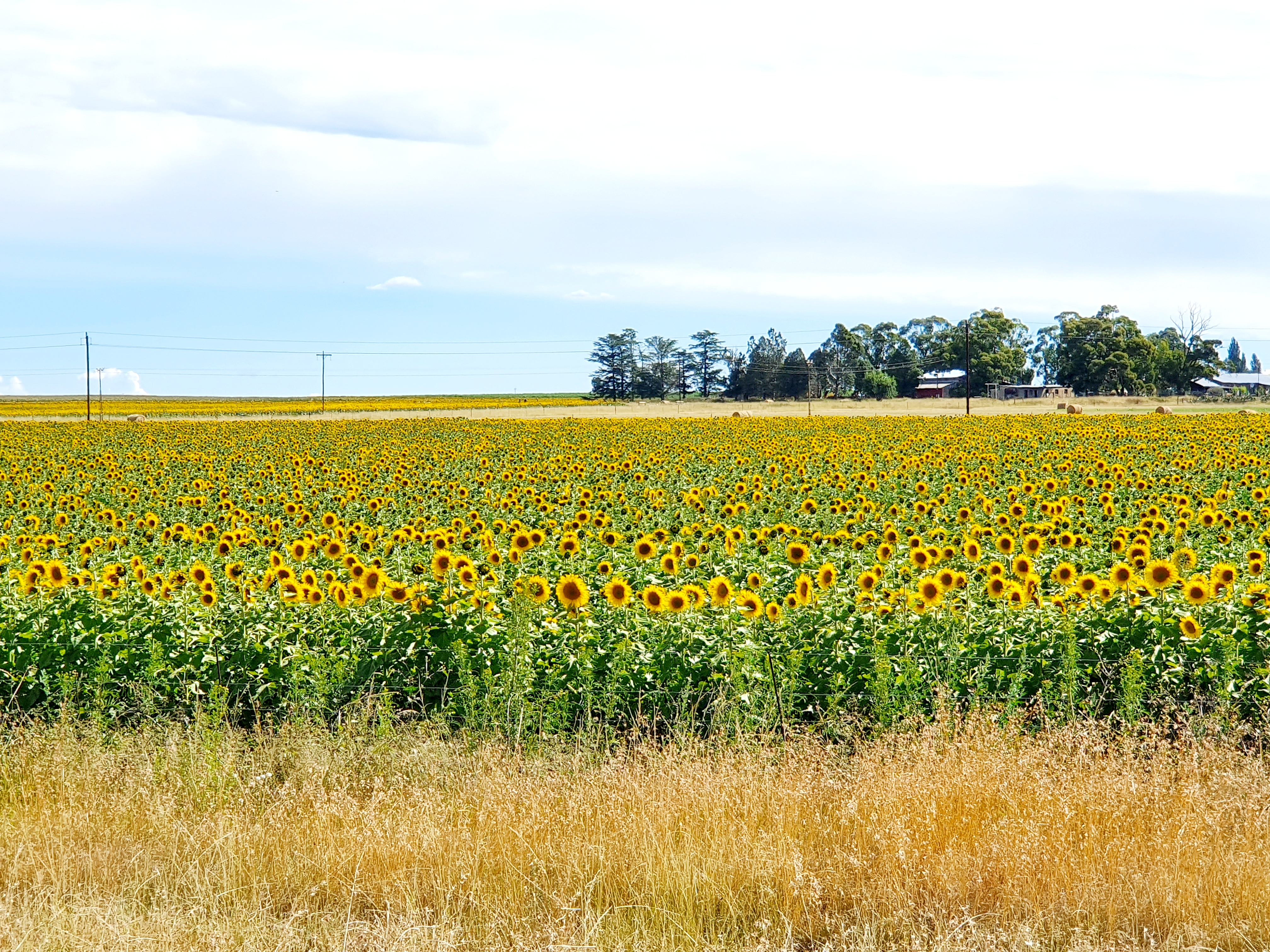 Beautiful Nature's Creation & Grow By The Human. This is an image with the theme "Africa on the Move or Transport" from: South Africa